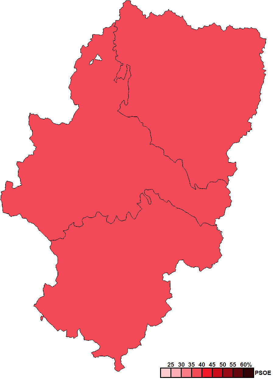 Provincial results for the 1987 Aragonese regional election.